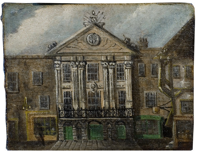 Theatre Royal, Drury Lane, in 1775; anonymous painting; Victoria & Albert Museum, London, Museum No. S.502-2006